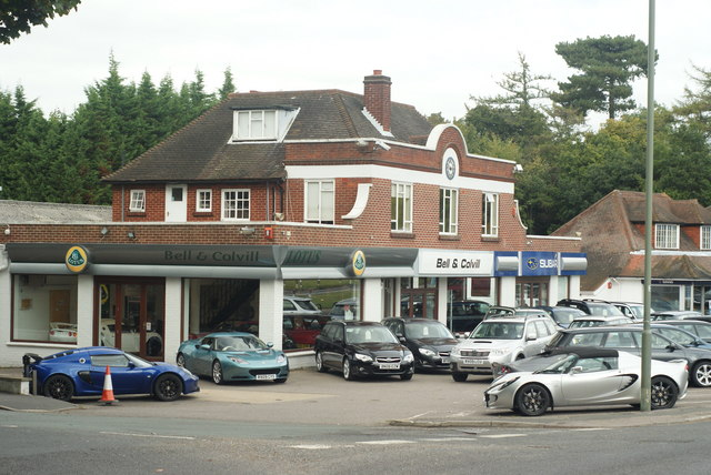 Bell & Colvill, West Horsley, Surrey The UK's longest established Lotus car dealership. A good variety of cars on display, including the latest model.